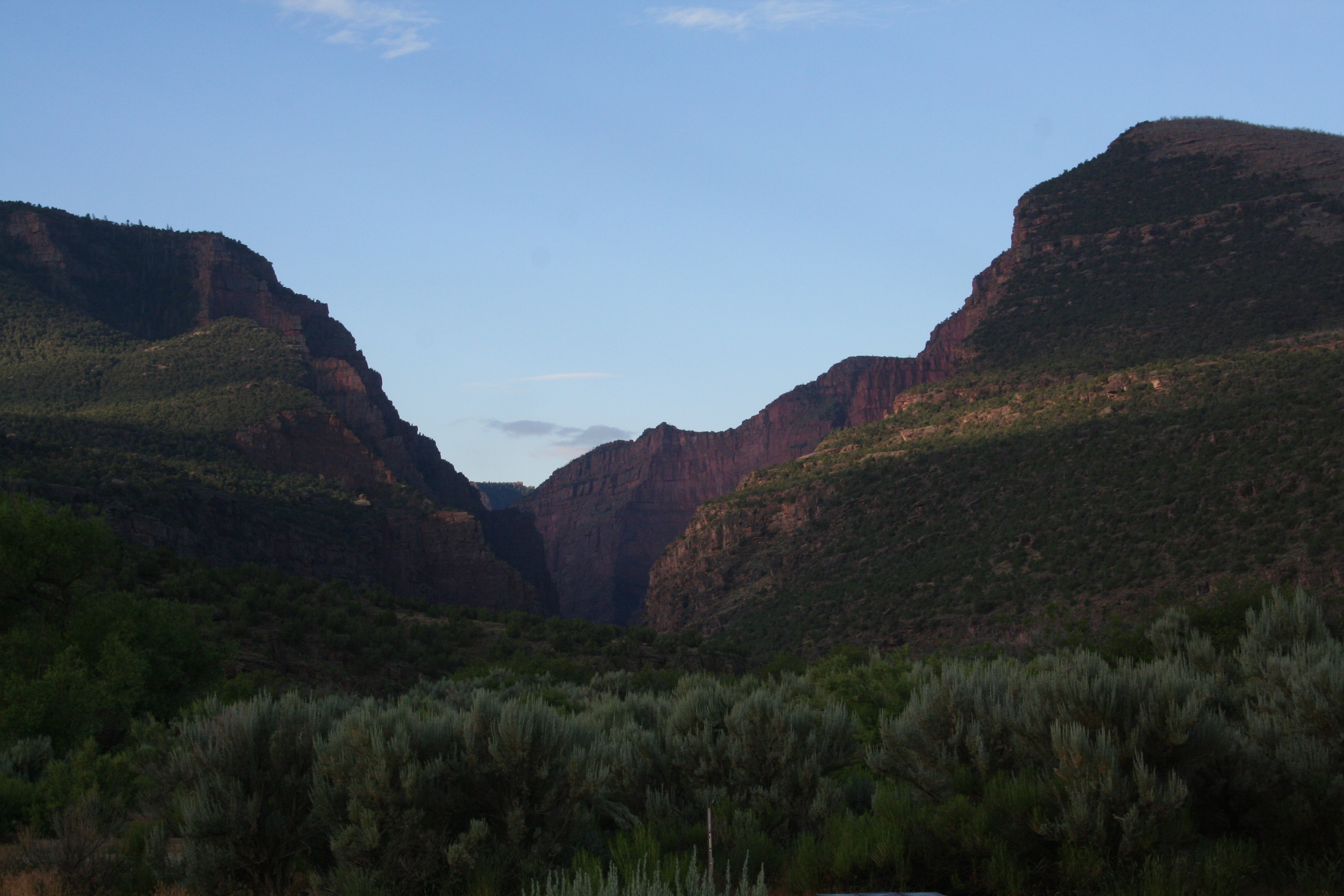 Gates of Lodore - Entrance to Lodore Canyon - Green River - Dinosaur National Monument